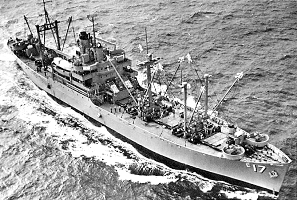 The U.S. Navy ammunition ship USS Great Sitkin (AE-17) underway.